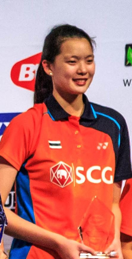 2014 BWF US Open Grand Prix Gold Badminton Championships...WD Final...Irawati/Marissa (INA)...def Supajirkul/Taerattanachai (THA)